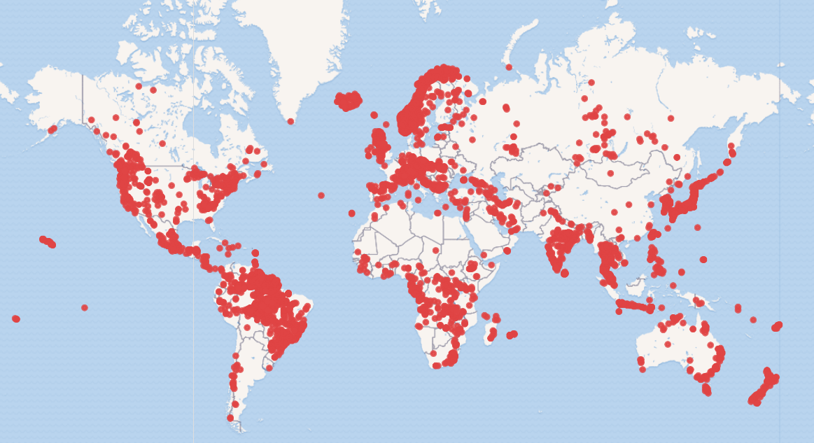 Map of 9849 waterfalls in the world (Wikidata, 2019-04-25) Query: waterfalls in the world (Map)